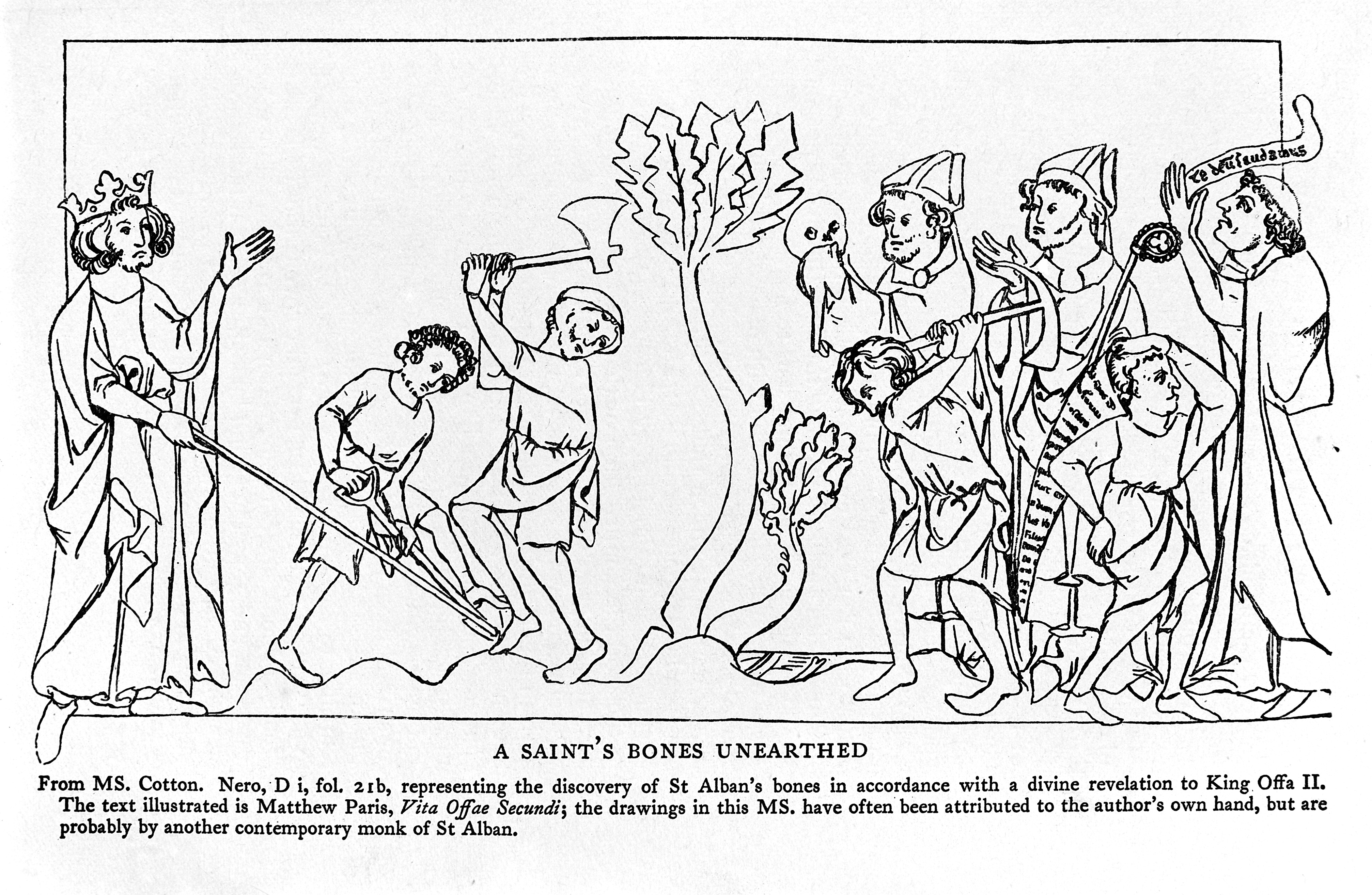 Line illustration of a Saint's bones unearthed. Wellcome Images Keywords: Saints; Middle Ages